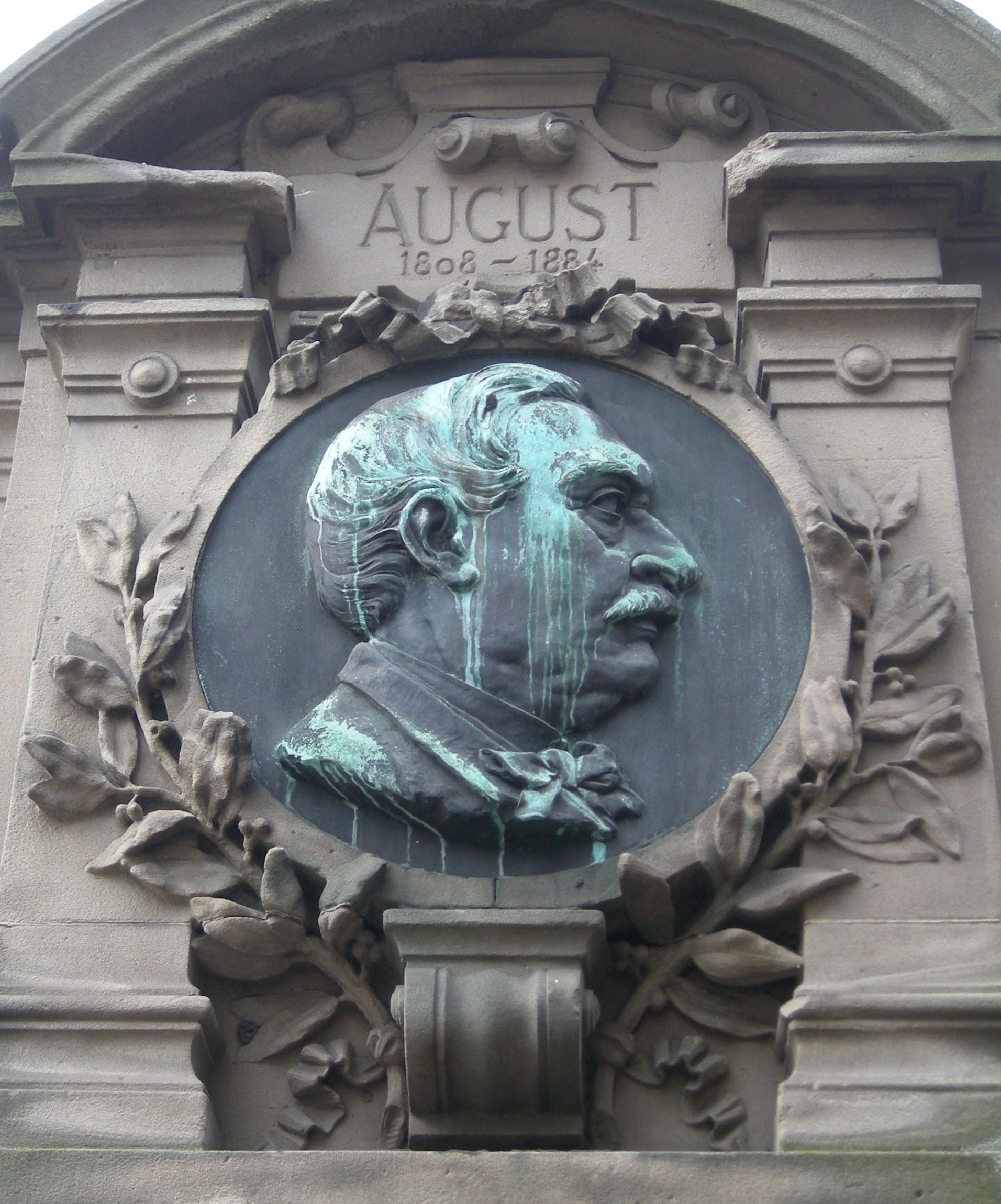 Alsatian teacher and poet August Stoeber (1808-1884), son of Daniel Ehrenfried Stoeber